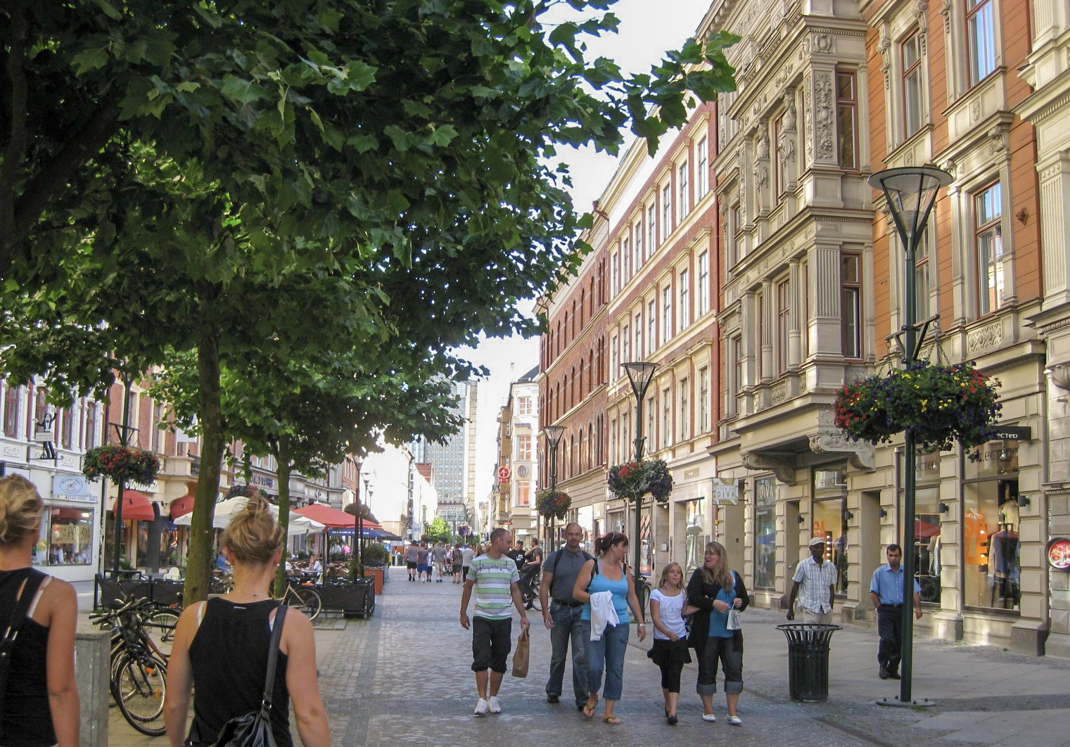 Södra Förstadsgatan, a pedestrian street in Malmö, Sweden